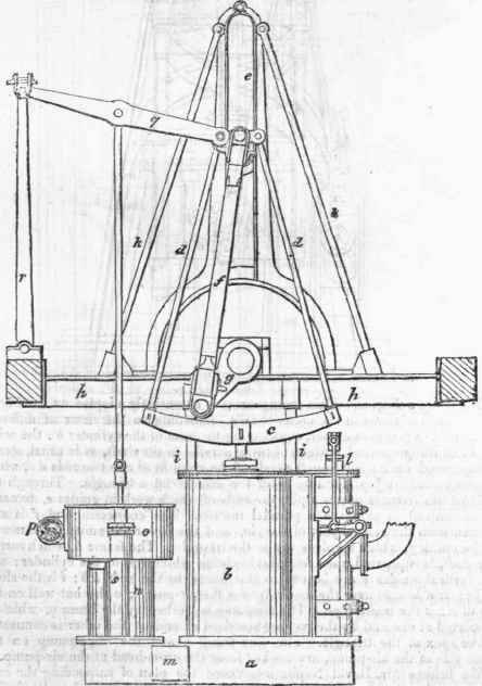 Steeple engine. The explanation accompanying the illustration is as follows: "At a is the condenser, constituting the base of the [engine] cylinder b. The cross-head c of the piston-rod, instead of being parallel to the shaft, as is usual, stands at right angles to it; and from the ends of the cross-head rise two rods d d, which are connected at top, forming with the cross-head a triangle. Through the apex of this triangle passes a pin, the ends of which work in guides e, to cause the piston-rod to preserve a parallel motion. The connecting-rod f is suspended from the central part of the pin, and the lower extremity is connected to the crank g, which revolves within the triangle." Note that in this type of engine, the connecting rod rotates neatly within the triangular crosshead assembly.